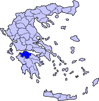 edited from GreeceMessinia.png